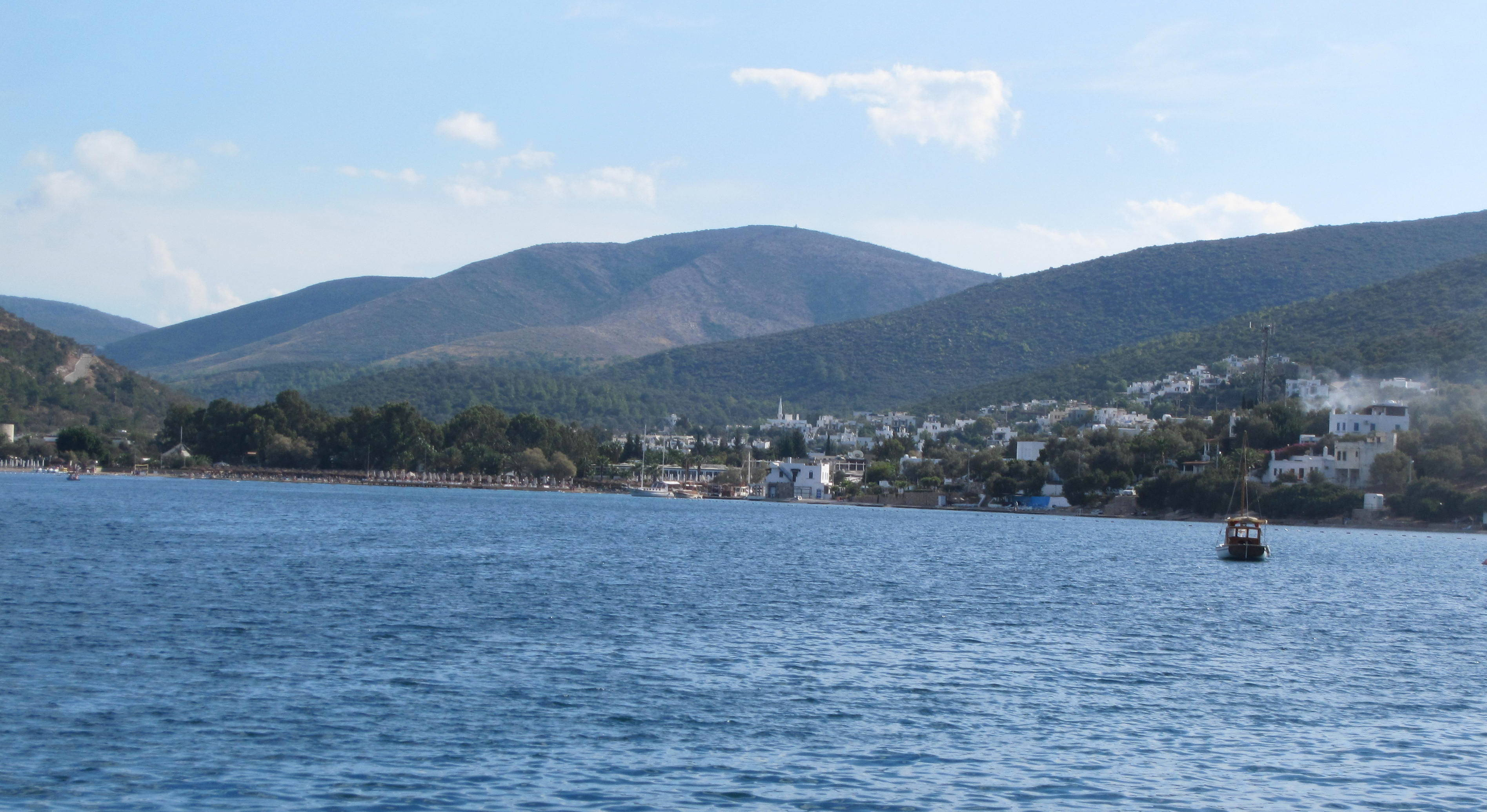 The village in the distance